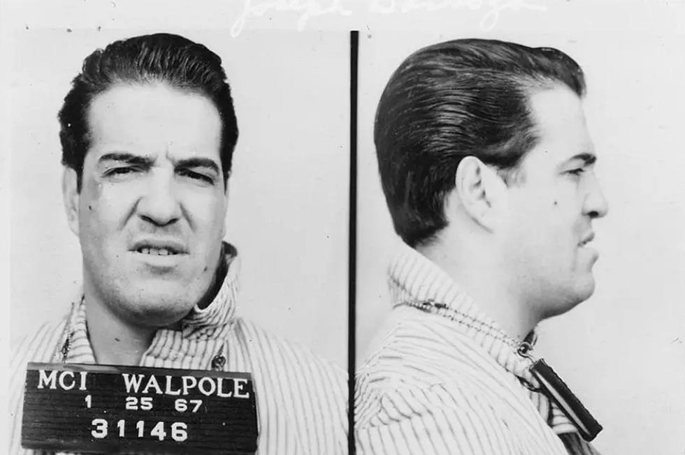 Mugshot of Joseph Barboza, an American gangster from Massachusetts.